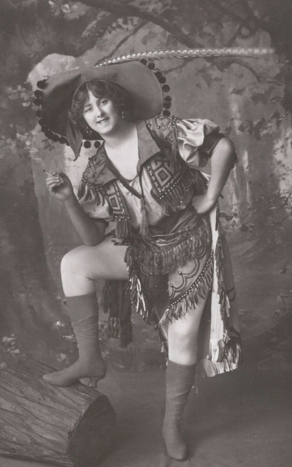 Dorothy Ward as Robin Hood in the pantomime 'Babes in the Wood' at the Prince of Wales Theatre, Birmingham (1909)